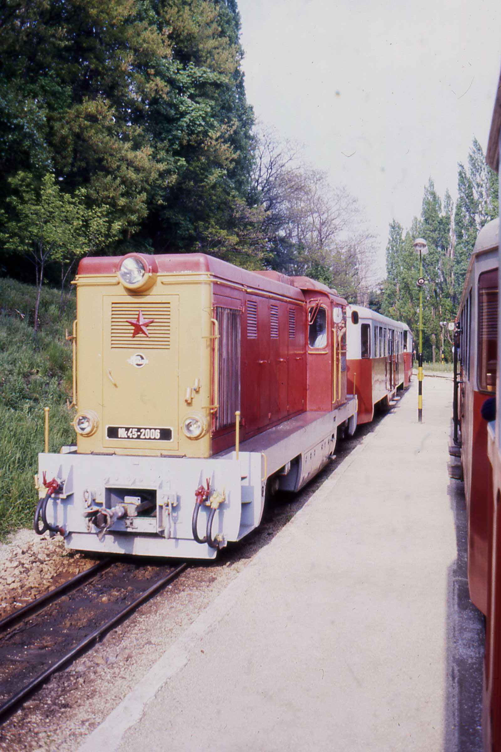 Original image description on Flickr: The large red star on the front of diesel hydraulic locomotive Mk-45-2006 of MAV, the Hungarian State railways, indicates a pre-1990 date. úttörővasút - Pioneers Railway, Buda Hills, Budapest, constructed 1948-1950. 6 of these locomotives were contructed by the 23rd August factory in Bucharest Romania, to a gauge of 760mm. . They entered service in 1973. A conspectus of activity here in the 21st century can be seen here In 1994, a further 4, nos 2007-10 which had been in service in Eastern Hungary, were transferred to the children's railway here for spare parts only. More about the system here. This particular loco is now numbered 2945 2006-1